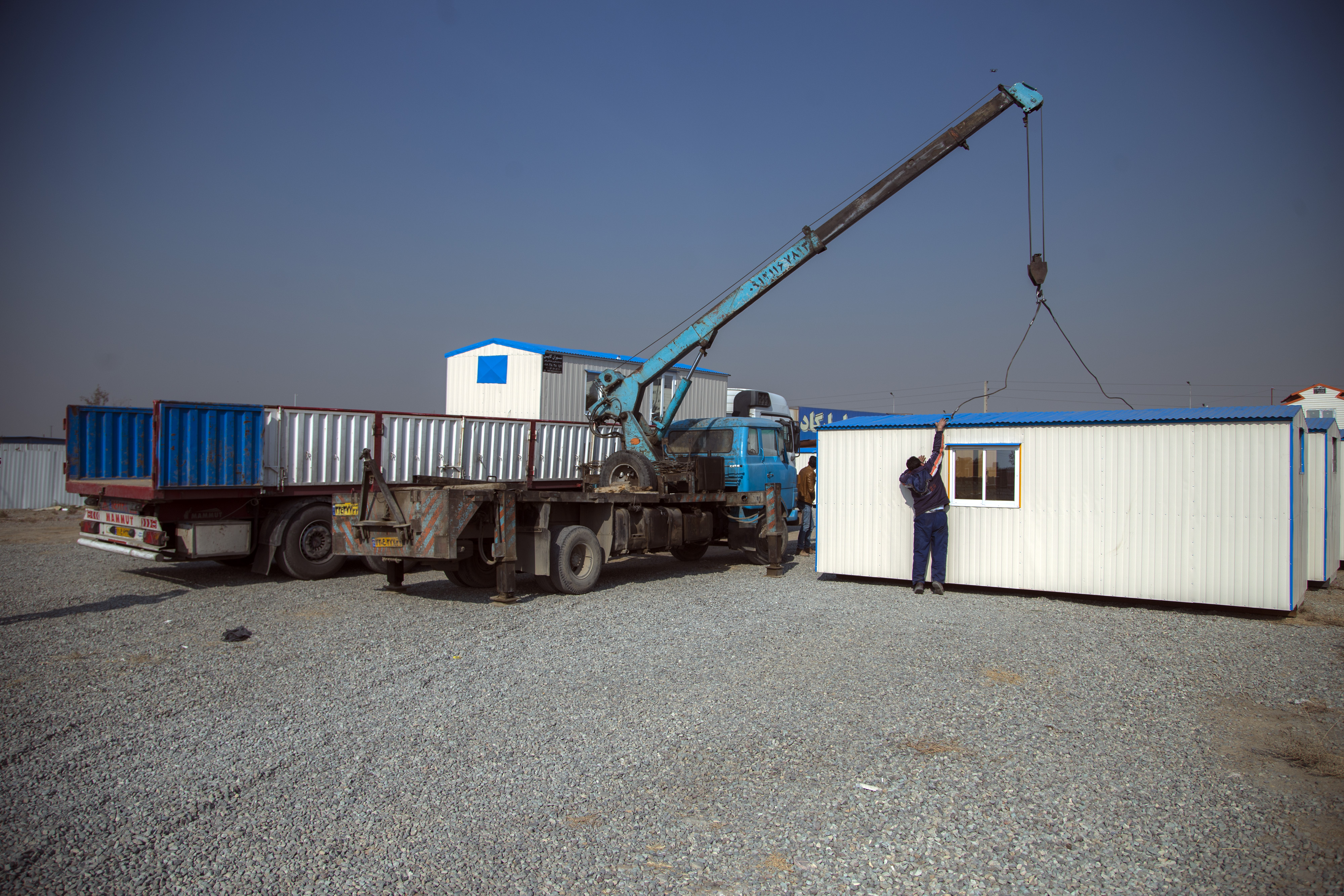 A shelter is a basic architectural structure or building that provides protection from the local environment.